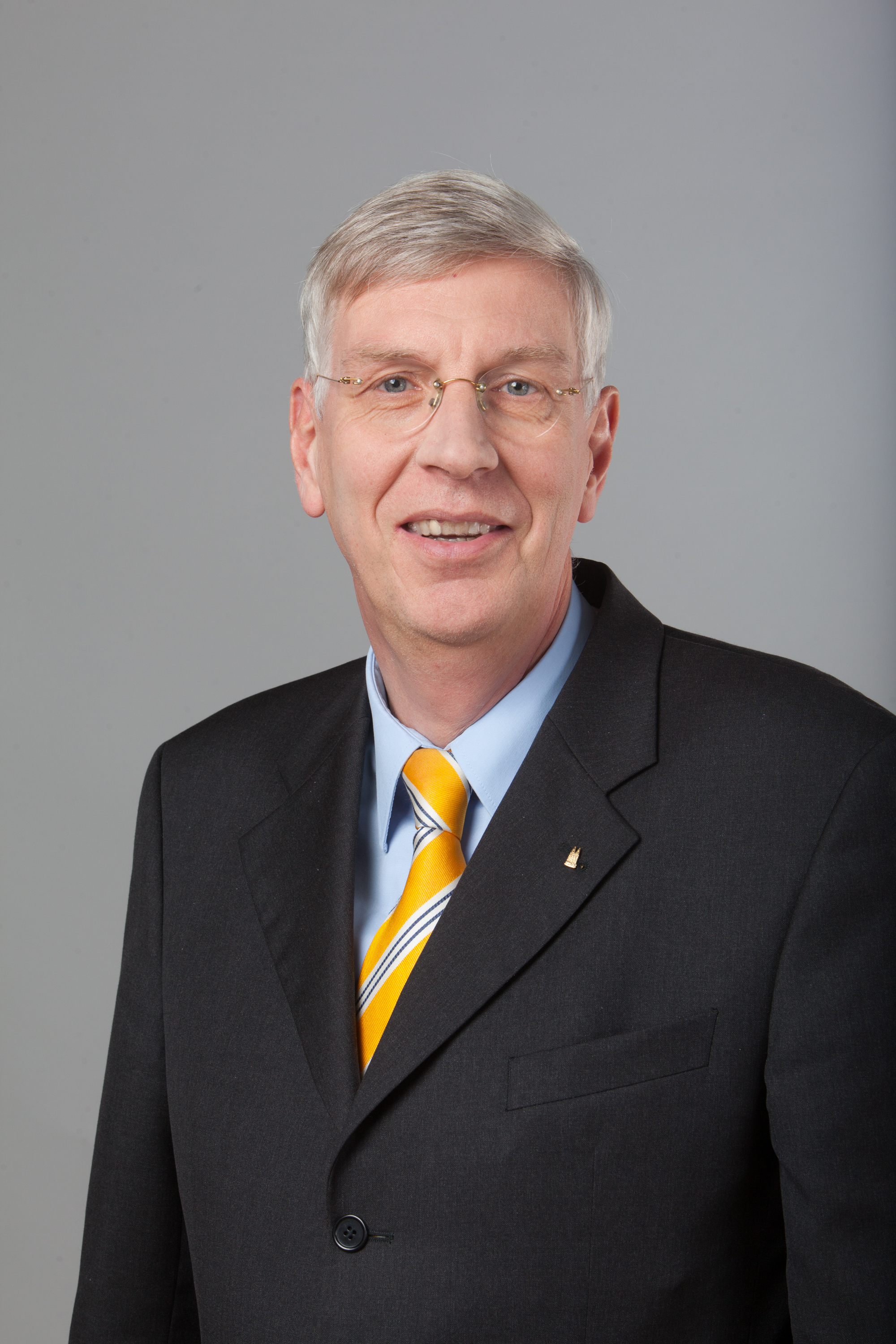 Dr. Ingo Wolf, Member of the parliament of North Rhine-Westphalia, FDP